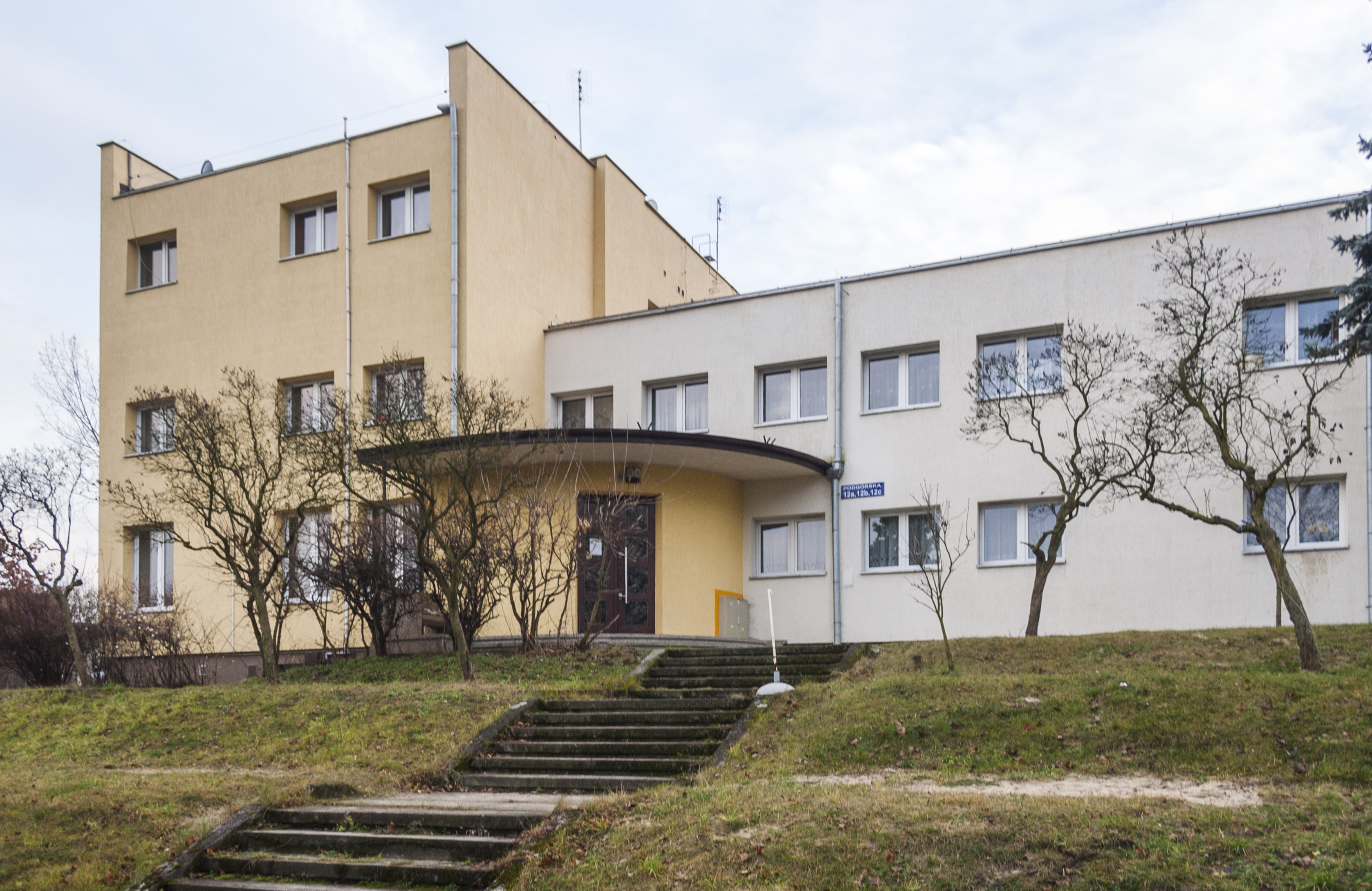 Dawny budynek radiostacji w Toruniu przy ul. Podgórskiej 12 z lat 30. XX w., proj. Antoni Dygat. Przebudowany po 1945 r.